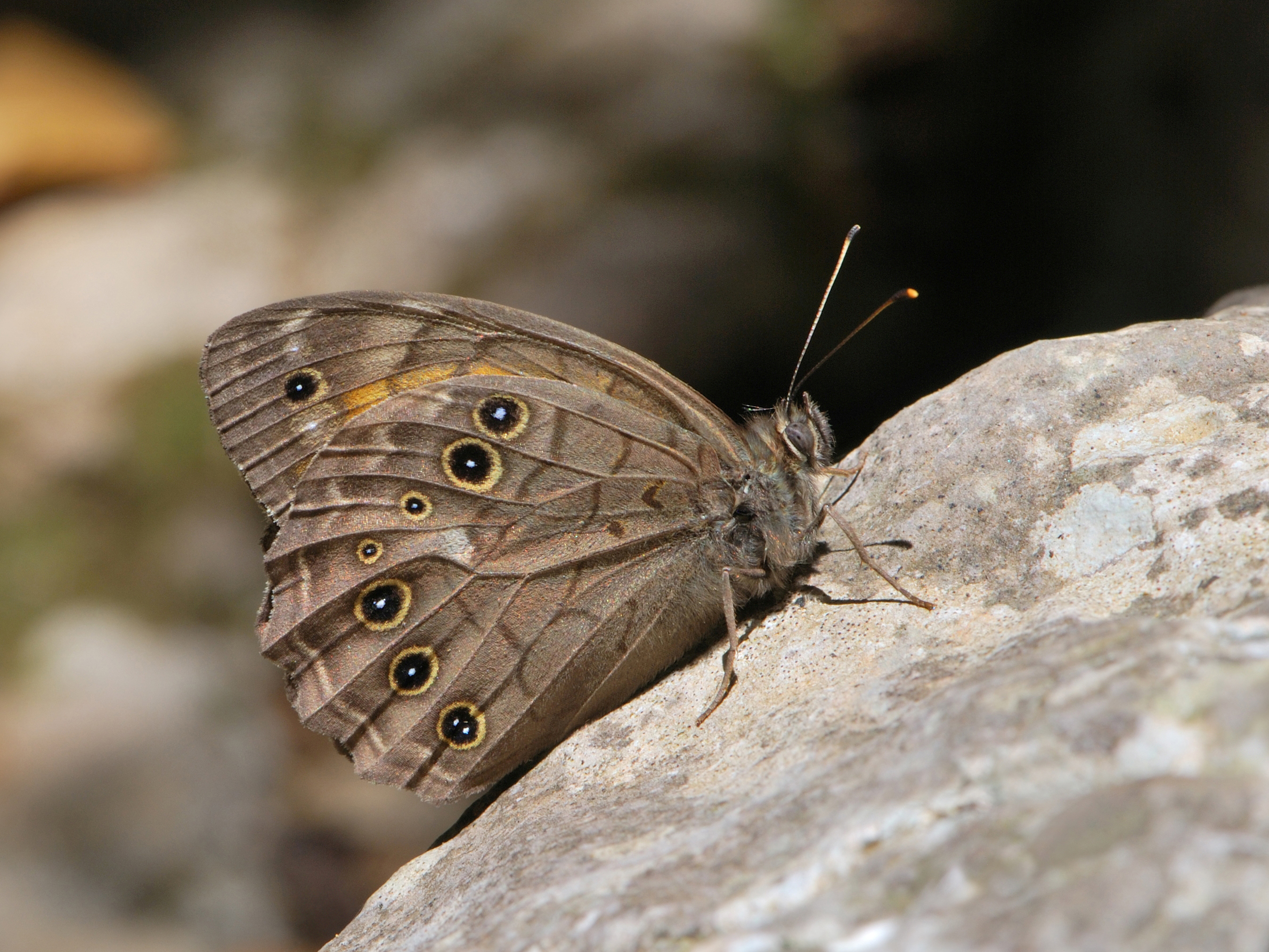 Kirinia roxelana Cramer, 1777, male resting on a rock, Nahal Kelah, Mount Carmel, Israel, June 8 2011.